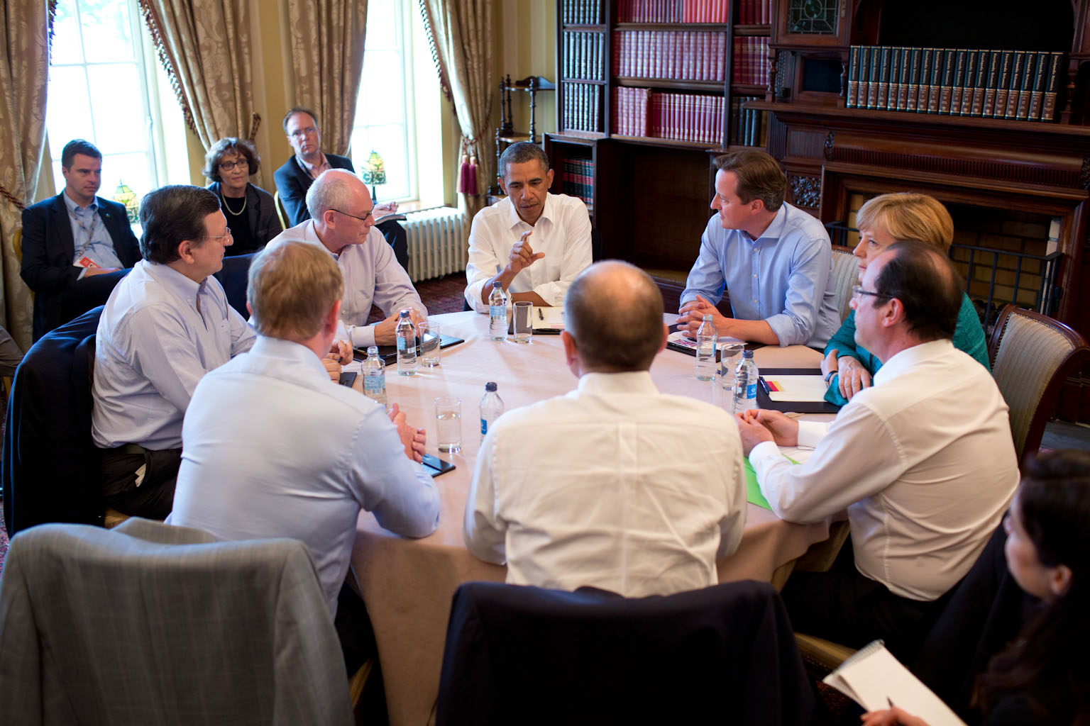 G8 Summit meeting on Transatlantic Trade and Investment Partnership in the Library at Lough Erne Resort in Enniskillen, Northern Ireland on 17 June 2013. President Barack Obama of the United States faces the camera in the centre, with (clockwise): Prime Minister David Cameron of the United Kingdom; Chancellor Angela Merkel of Germany; President François Hollande of France; Prime Minister Enrico Letta of Italy; Taoiseach Enda Kenny of Ireland, which holds the Presidency of the Council of the European Union; José Manuel Barroso, President of the European Commission; and Herman Van Rompuy, President of the European Council.